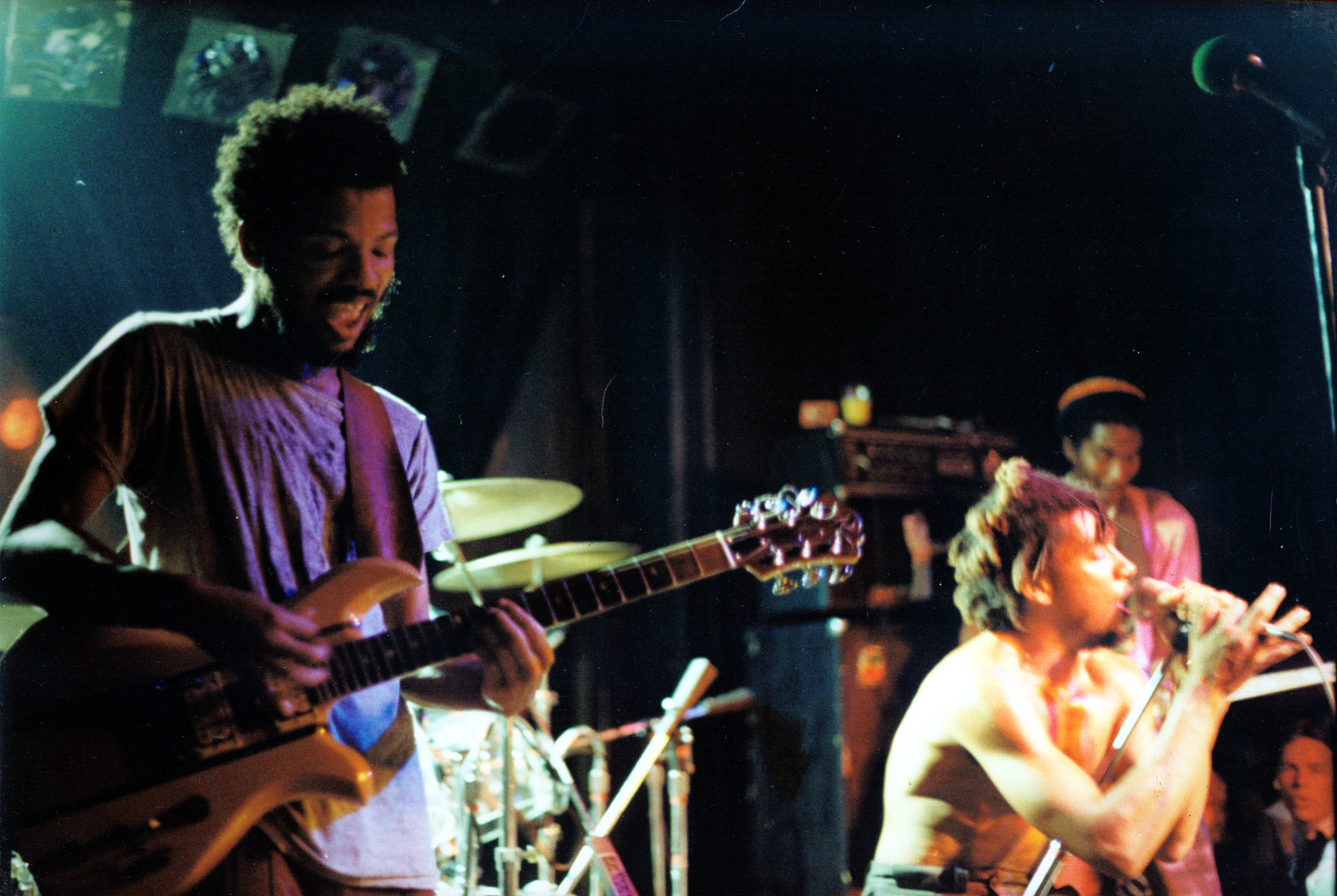 Punk rock hardcore band The Bad Brains at Nightclub 9:30, Washington, DC, 1983.